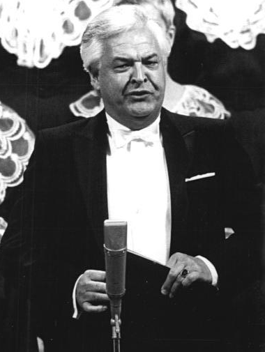 Berlin: Jubilee State Act. At the end of the festive state act, Ludwig van Beethoven's 9th Symphony was heard. Among the soloists of the final movement with the cantata about Schiller's "Ode to Joy" was Theo Adam.